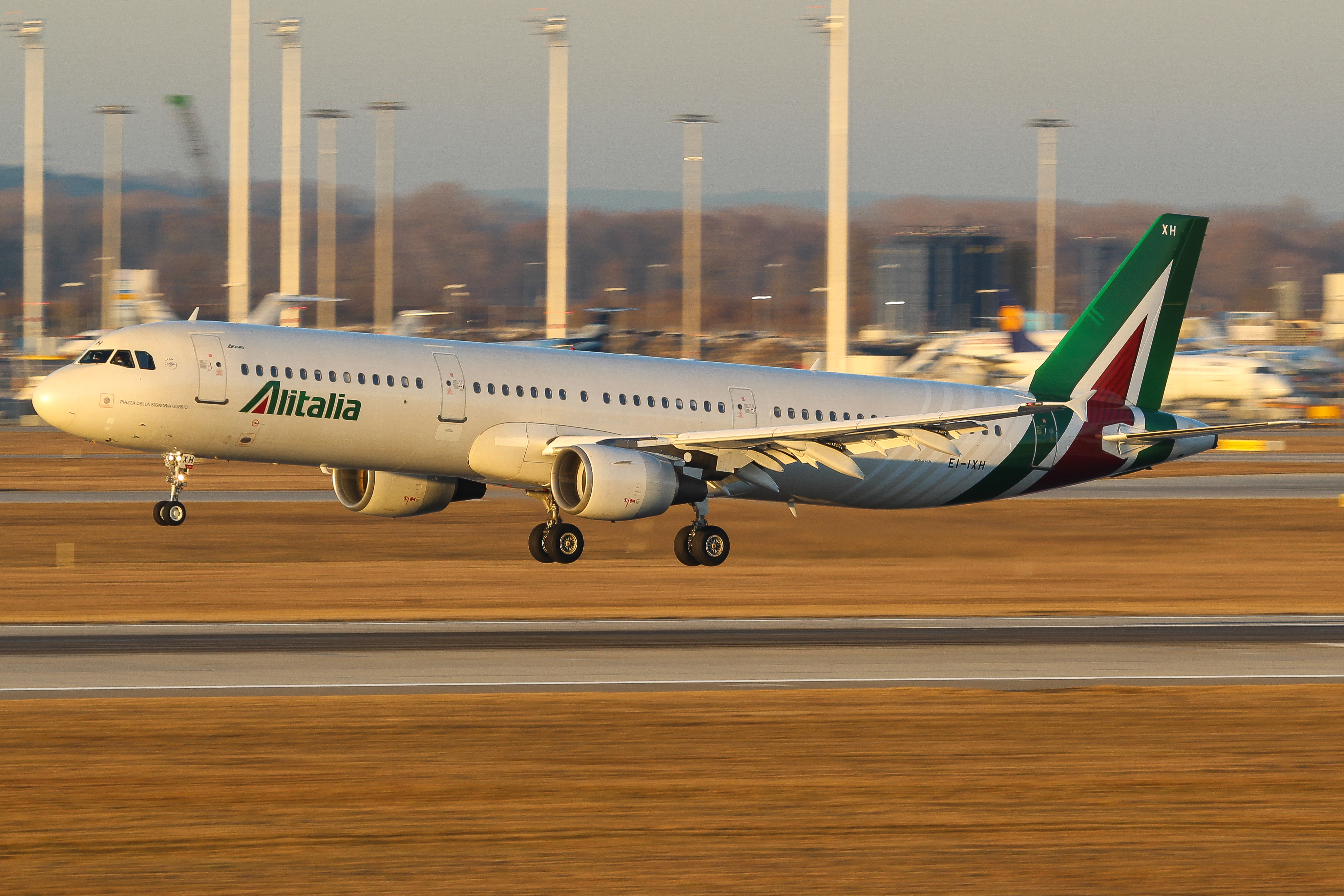 Alitalia Airbus A321 during landing at Munich airport.